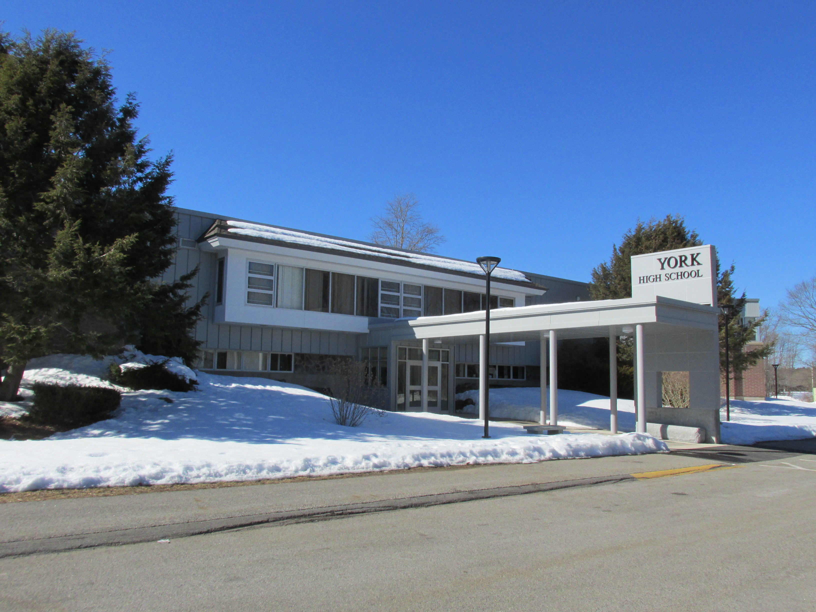 York High School, York Maine - 2014